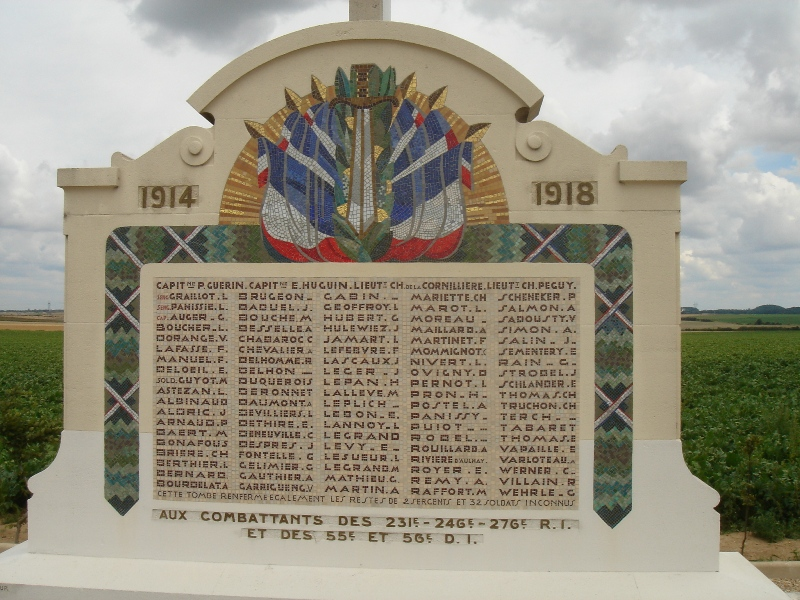 Memorial of French writer Charles Péguy